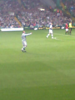 Neil Lennon playing in the John Kennedy testimonial match